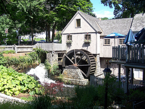 The Plimoth Grist Mill. Mostly unseen off to the right is a restaurant that shares building space, but is not associated with the mill.